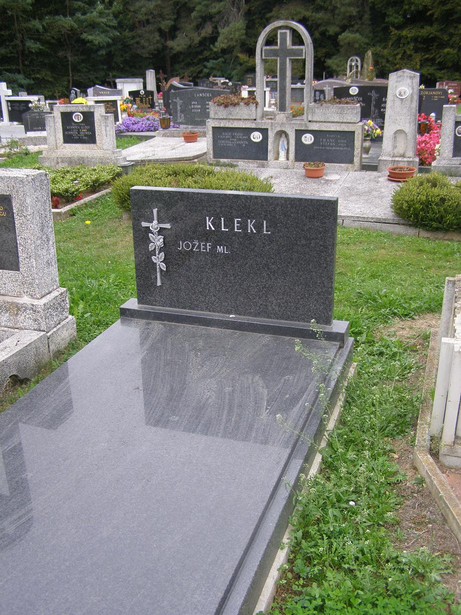 The thomb of writer József Klekl in Dolenci